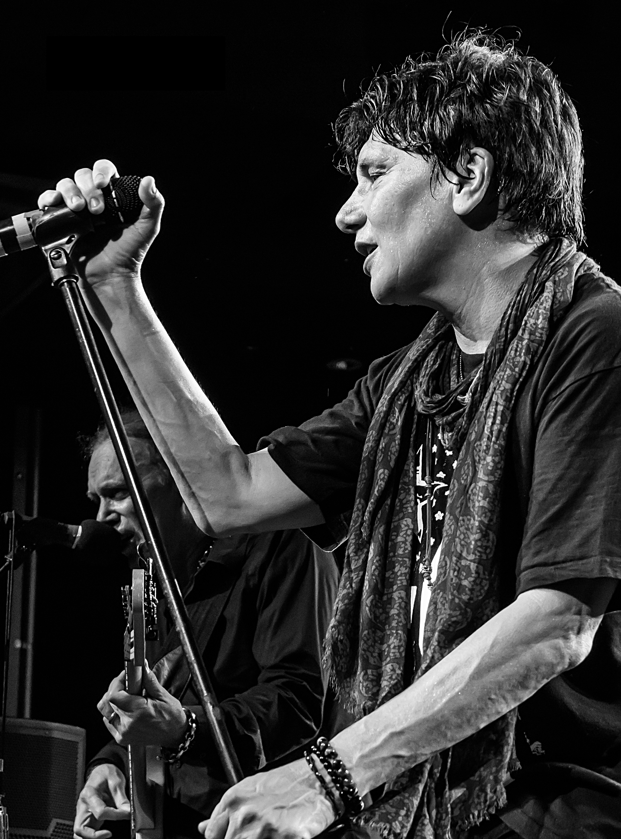 Mr. Big at The Rose